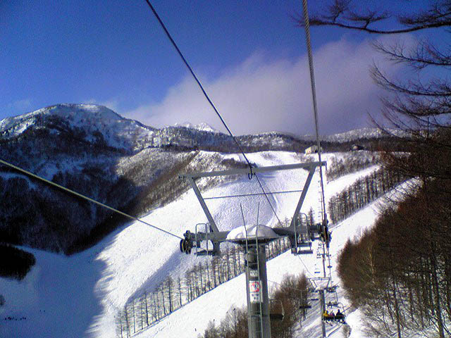 ogunahotaka